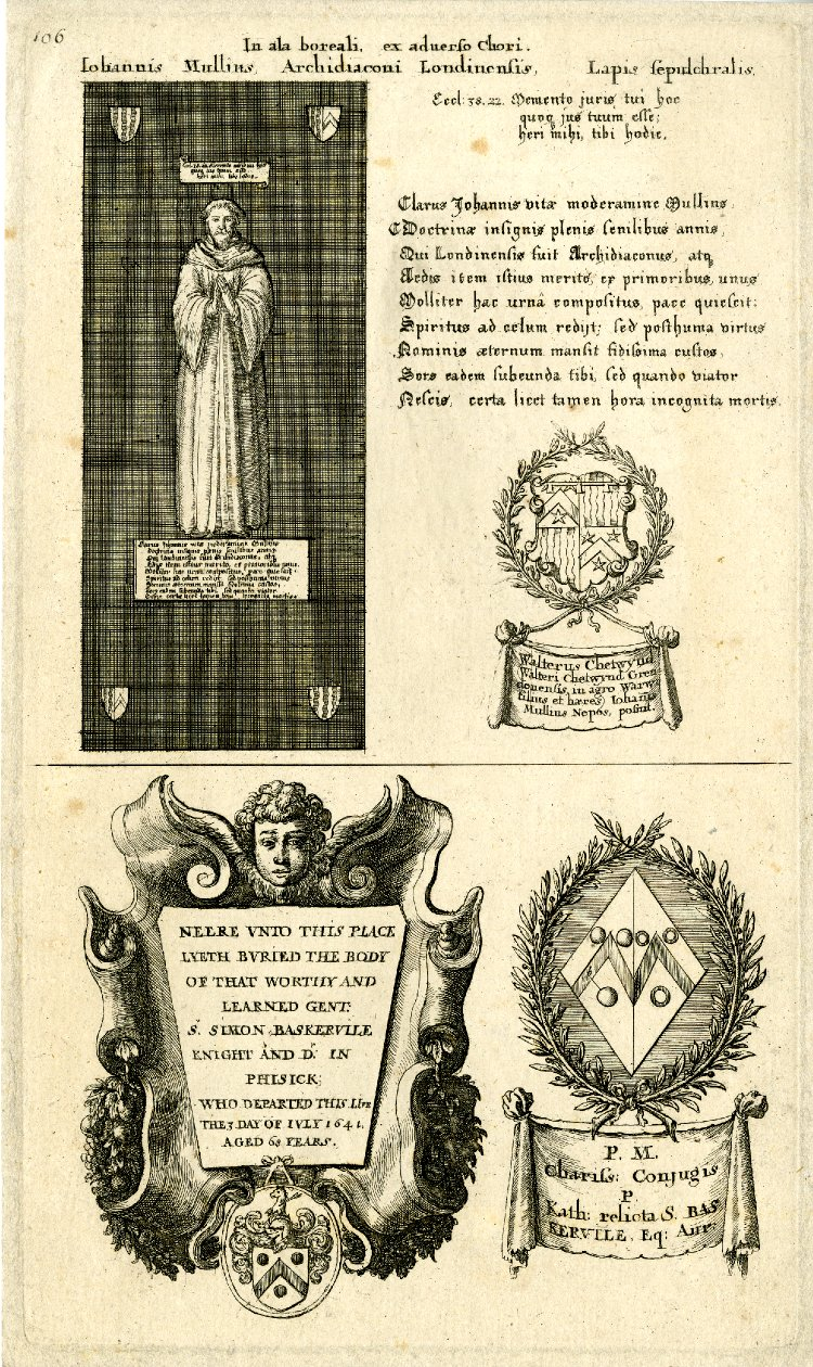 "omb slab of John Mullins and memorial to Sir Simon Baskerville, in St Paul's," etching, by the Czech-English artist and printmaker Wenceslaus Hollar. 275 mm x 161 mm. Courtesy of the British Museum, London.